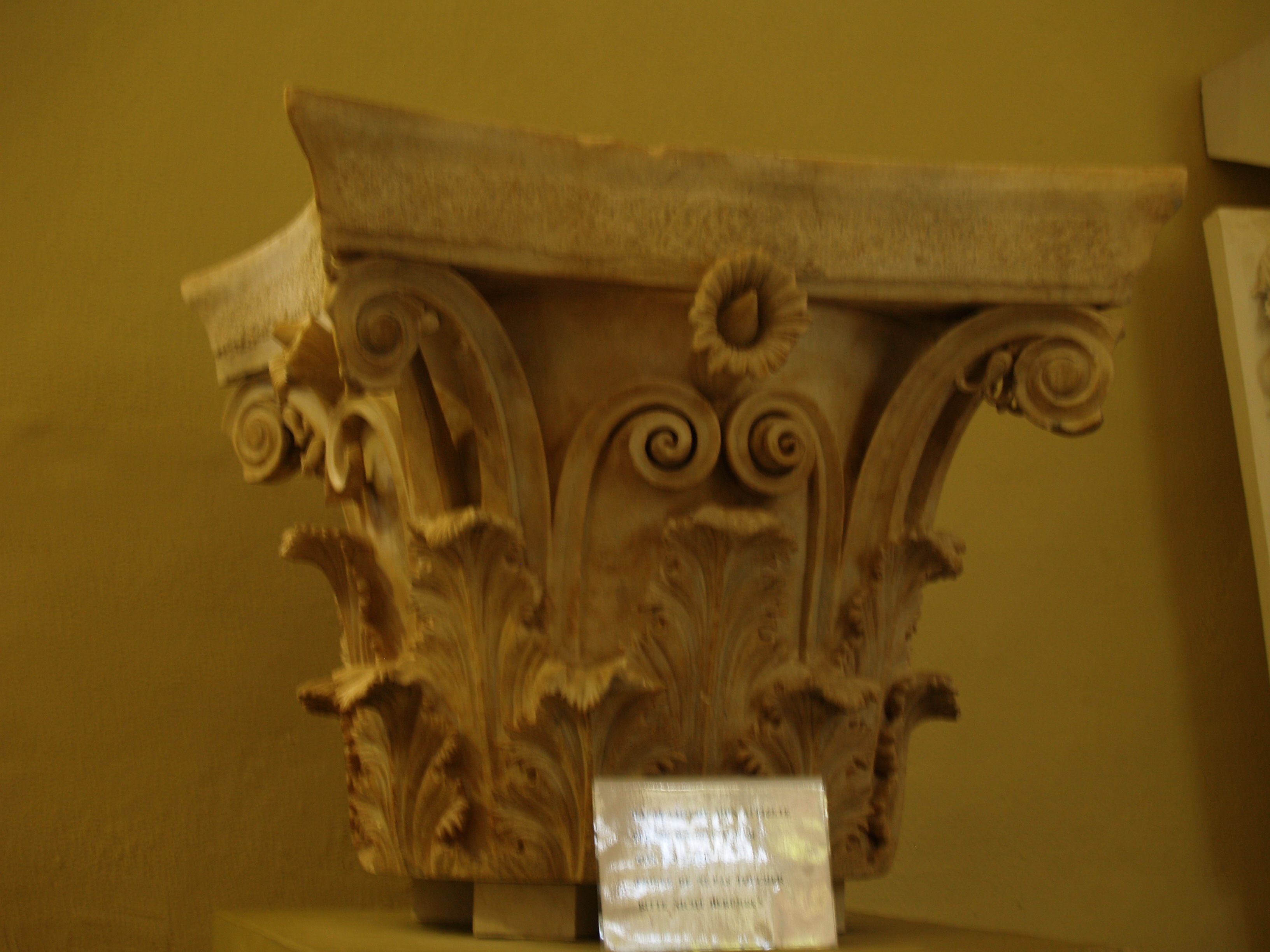 Corinthian capital on display in the Archaeological Museum of Epidaurus. It was found in a fill below the foundations of the Tholos, buried there in antiquity. It is considered to be the "model" of the capitals of the inner colonnade of the Tholos, designed by Polykleitos the Younger.